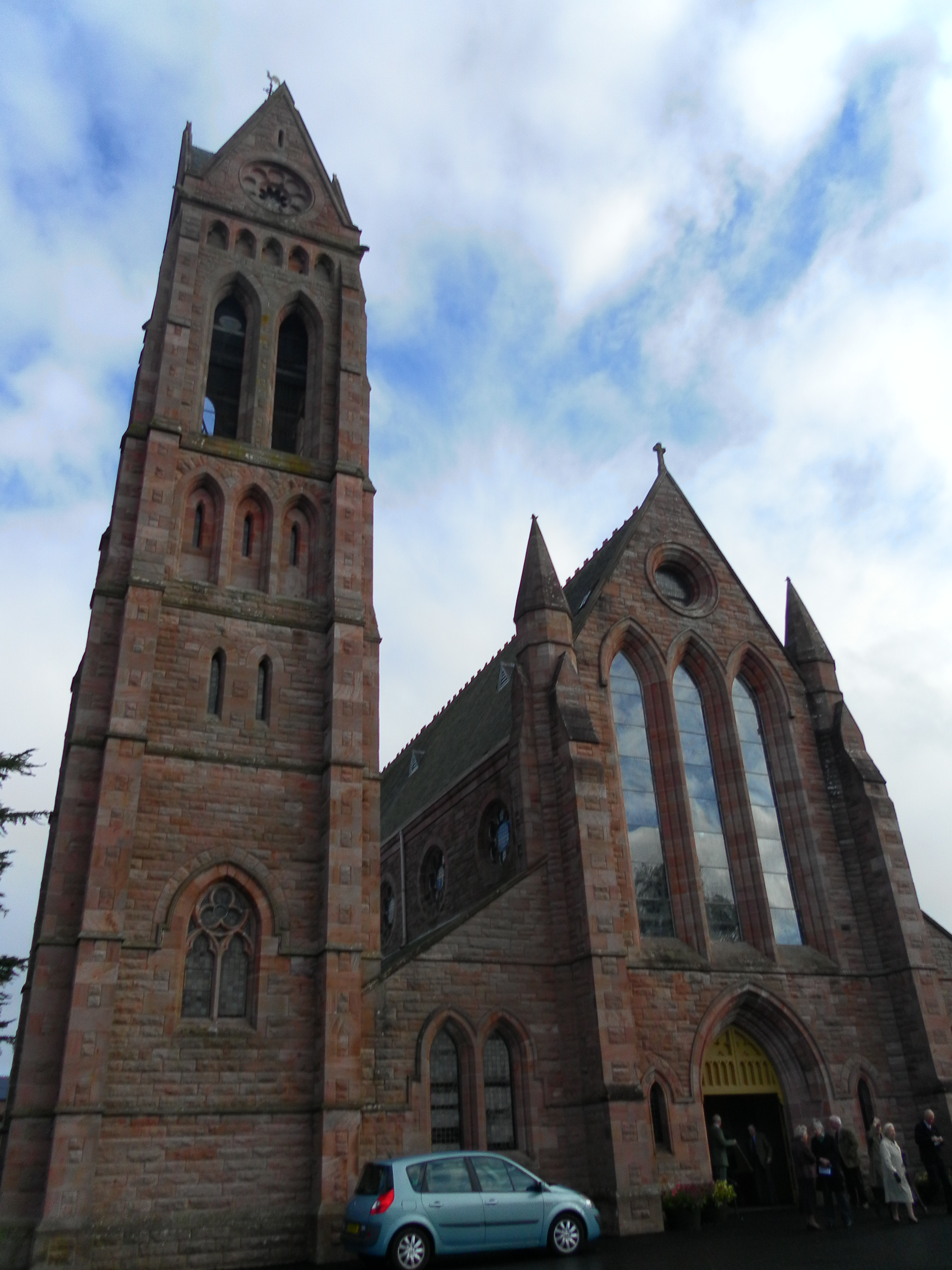 Crieff Parish Church in the village of Crieff, Scotland.